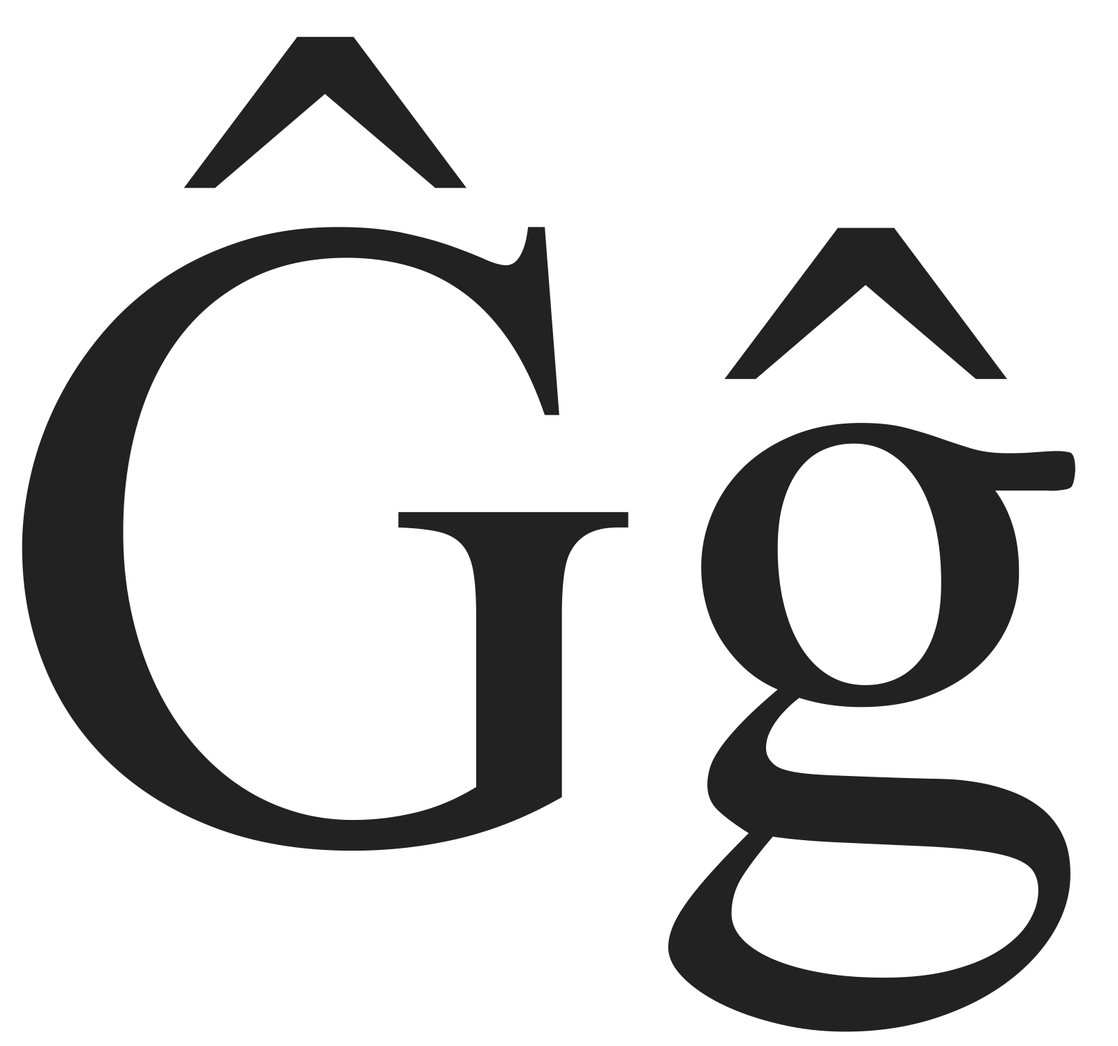 Doulos SIL glyphs for Majuscule and minuscule ĝ.